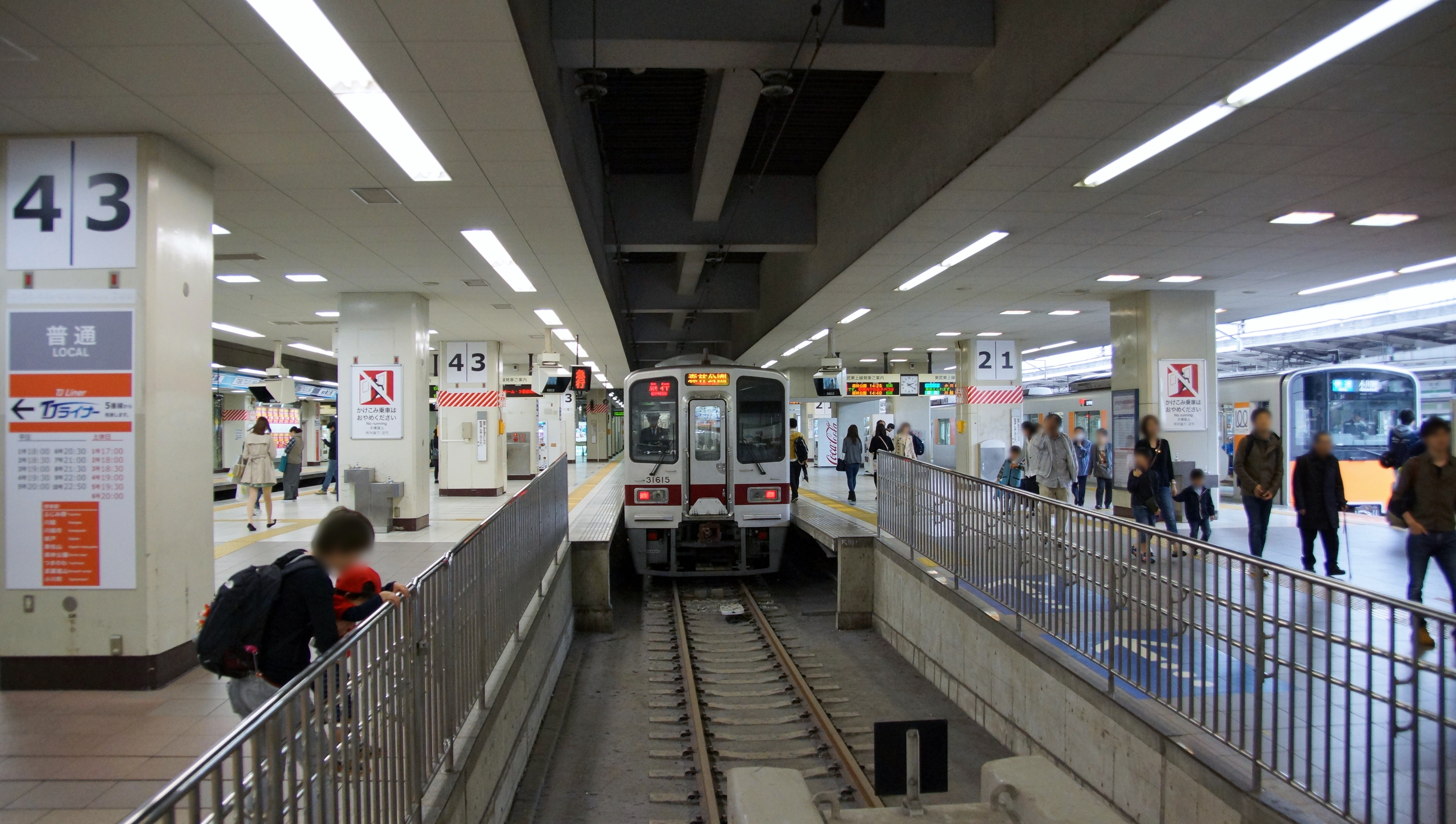 The buffer stops at the Tobu Tojo Line platforms at Ikebukuro Station in Tokyo, Japan